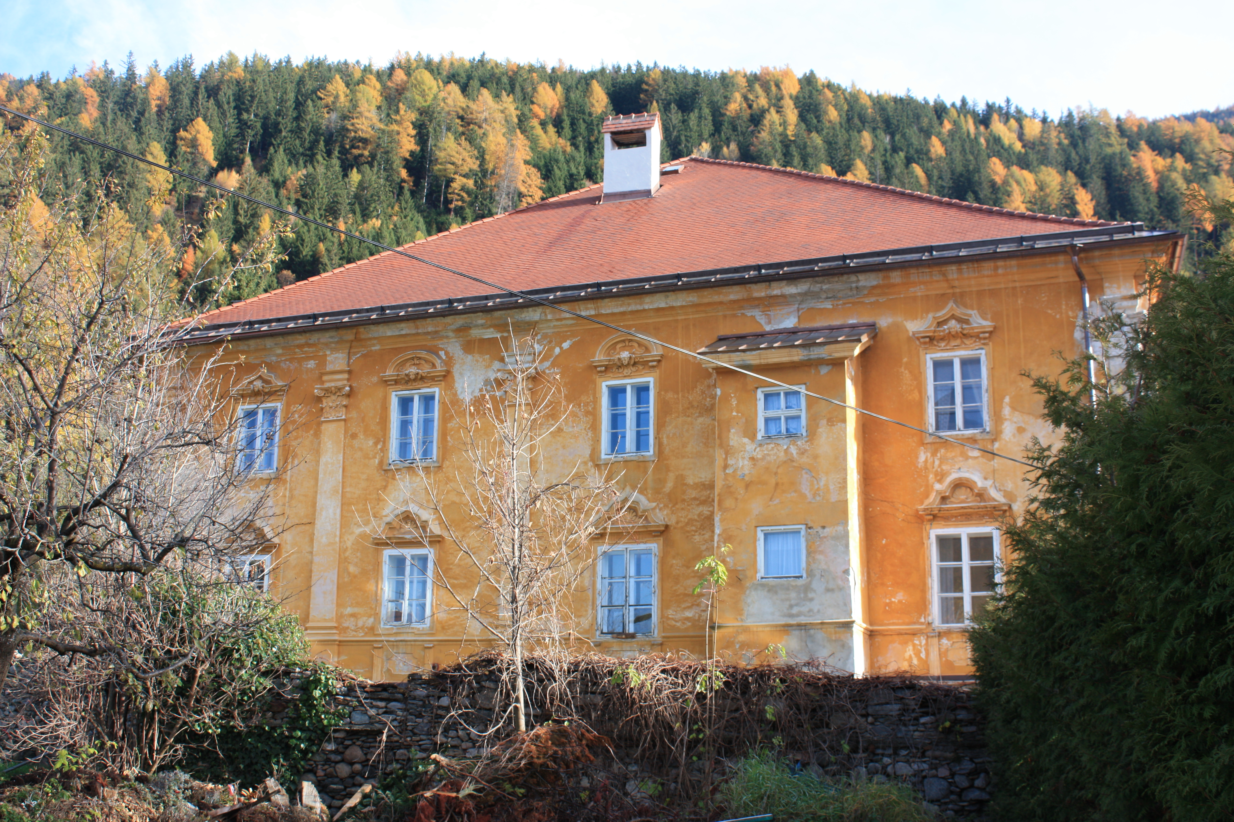 Trabuschgen-castle in Obervellach